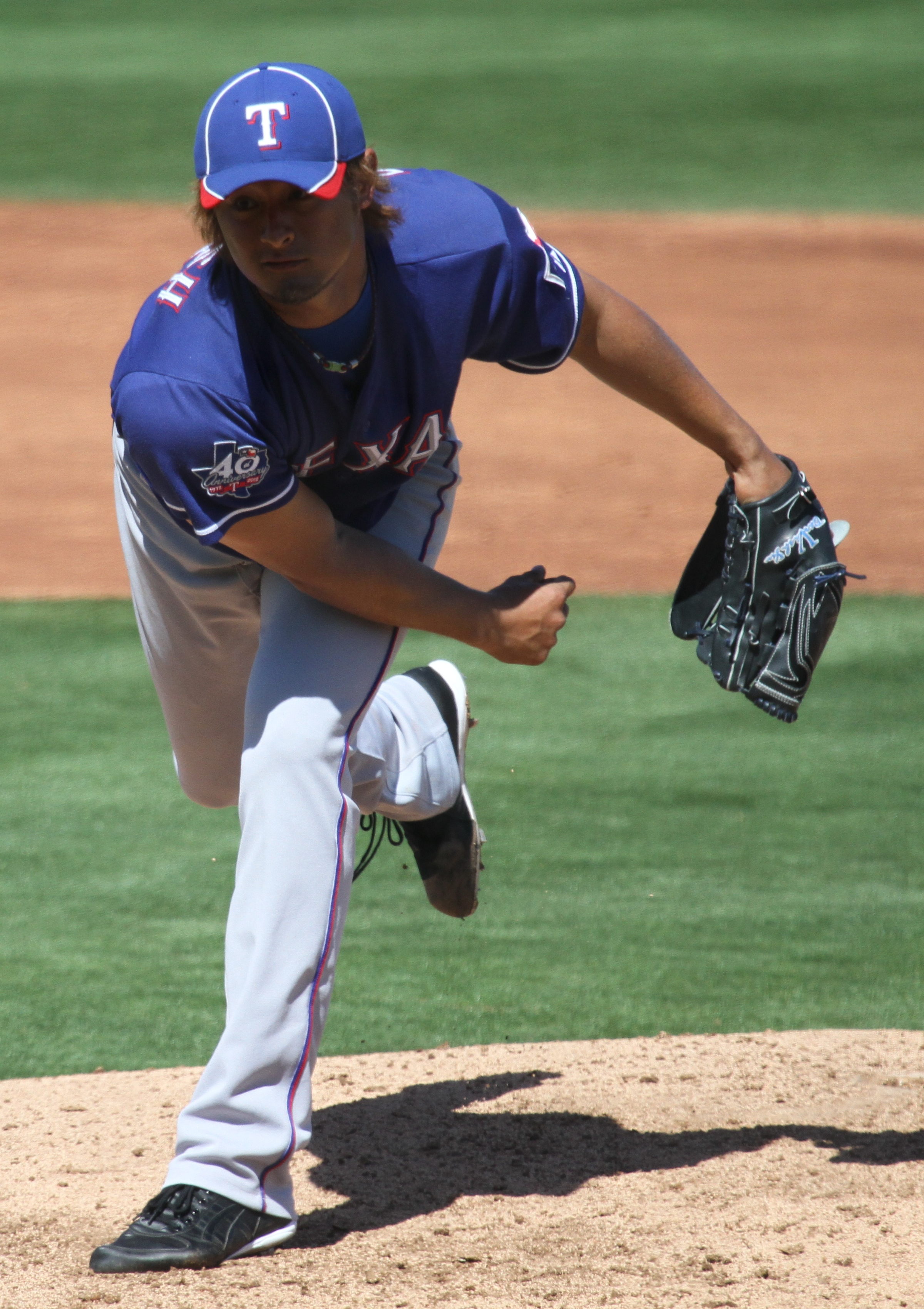 Yu Darvish